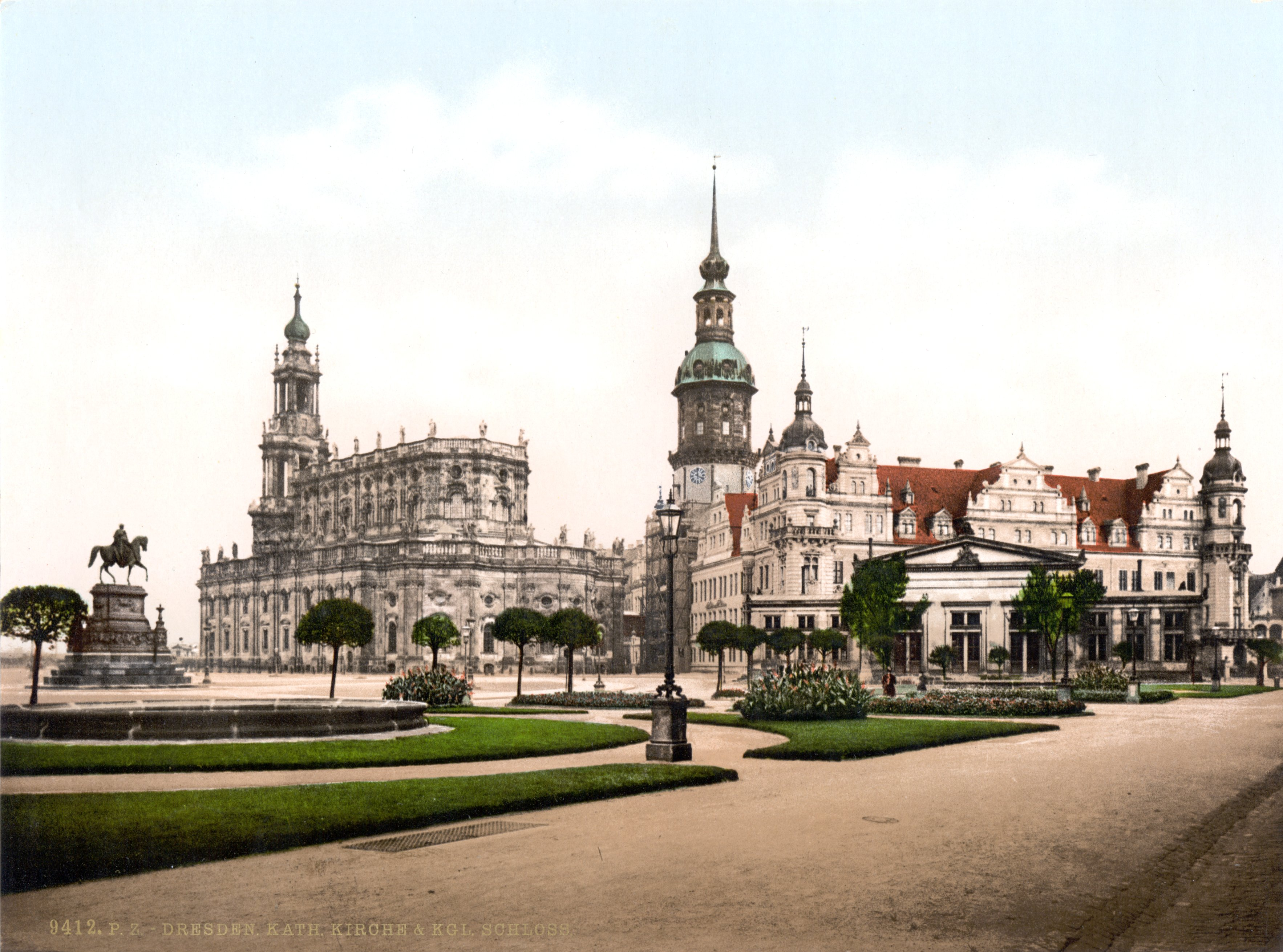 Dresden (Saxony, Germany) - Theaterplatz, Katholische Hofkirche and Residenzschloss